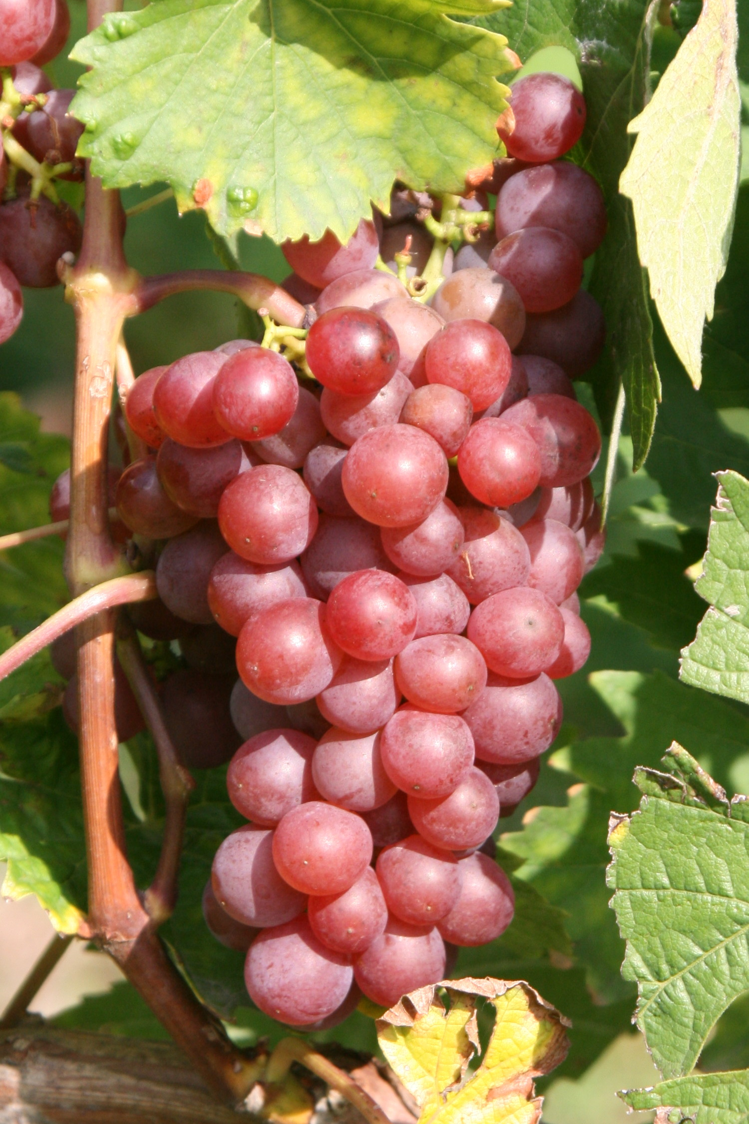 Grapes and leaves of the grape variety Schönburger, photographed at the viticulture trail on the Schemelsberg hill in Weinsberg